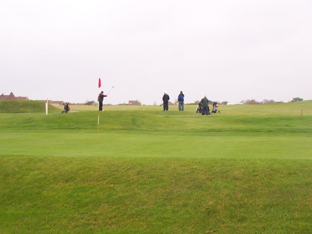 Westgate and Birchington Golf Course On Epple Bay Avenue, that goes around the golf course to the west. Clubhouse over in Westgate. For more info go to